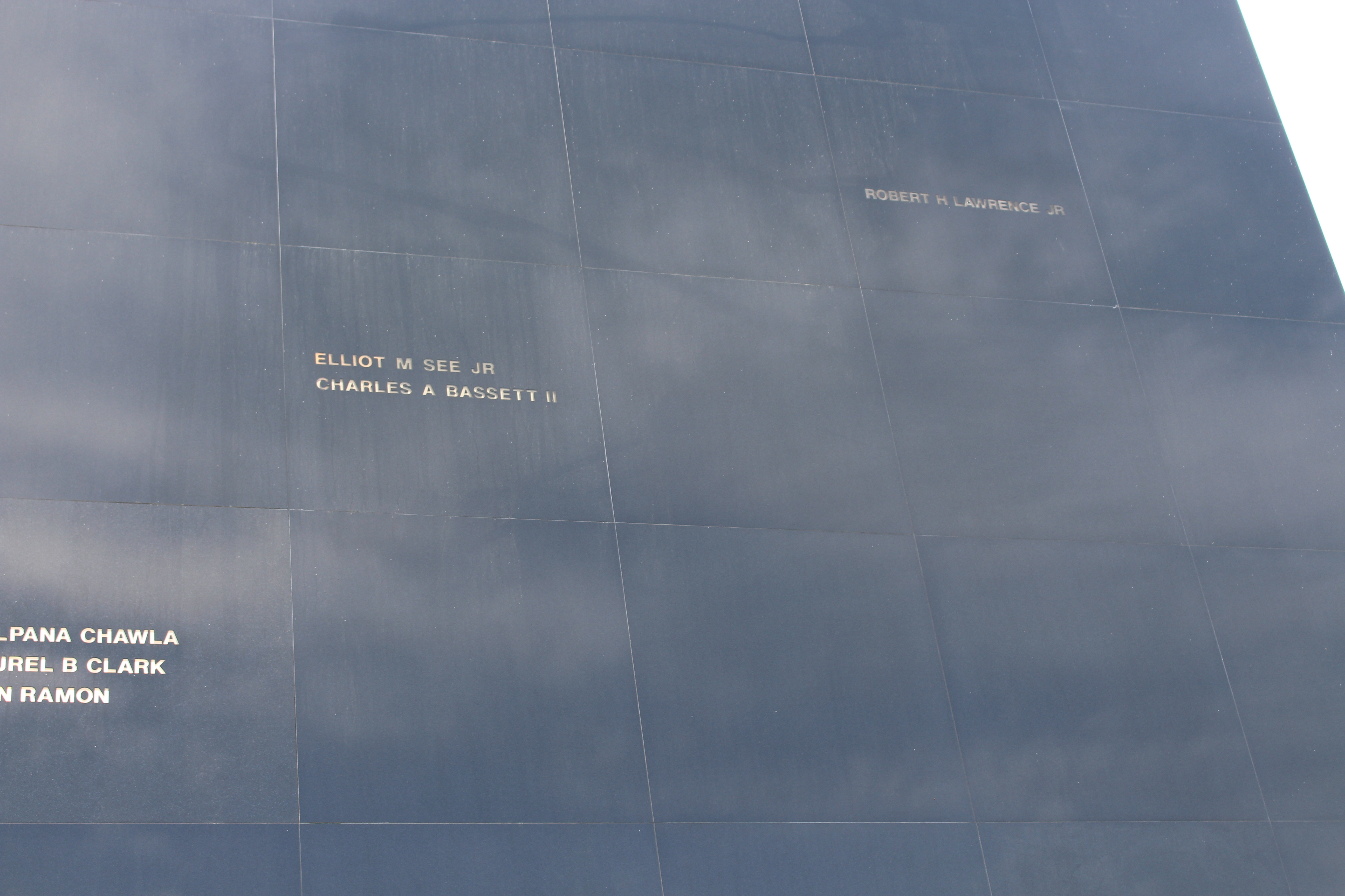 Space Mirror Memorial, Kennedy Space Center, Brevard County, Florida